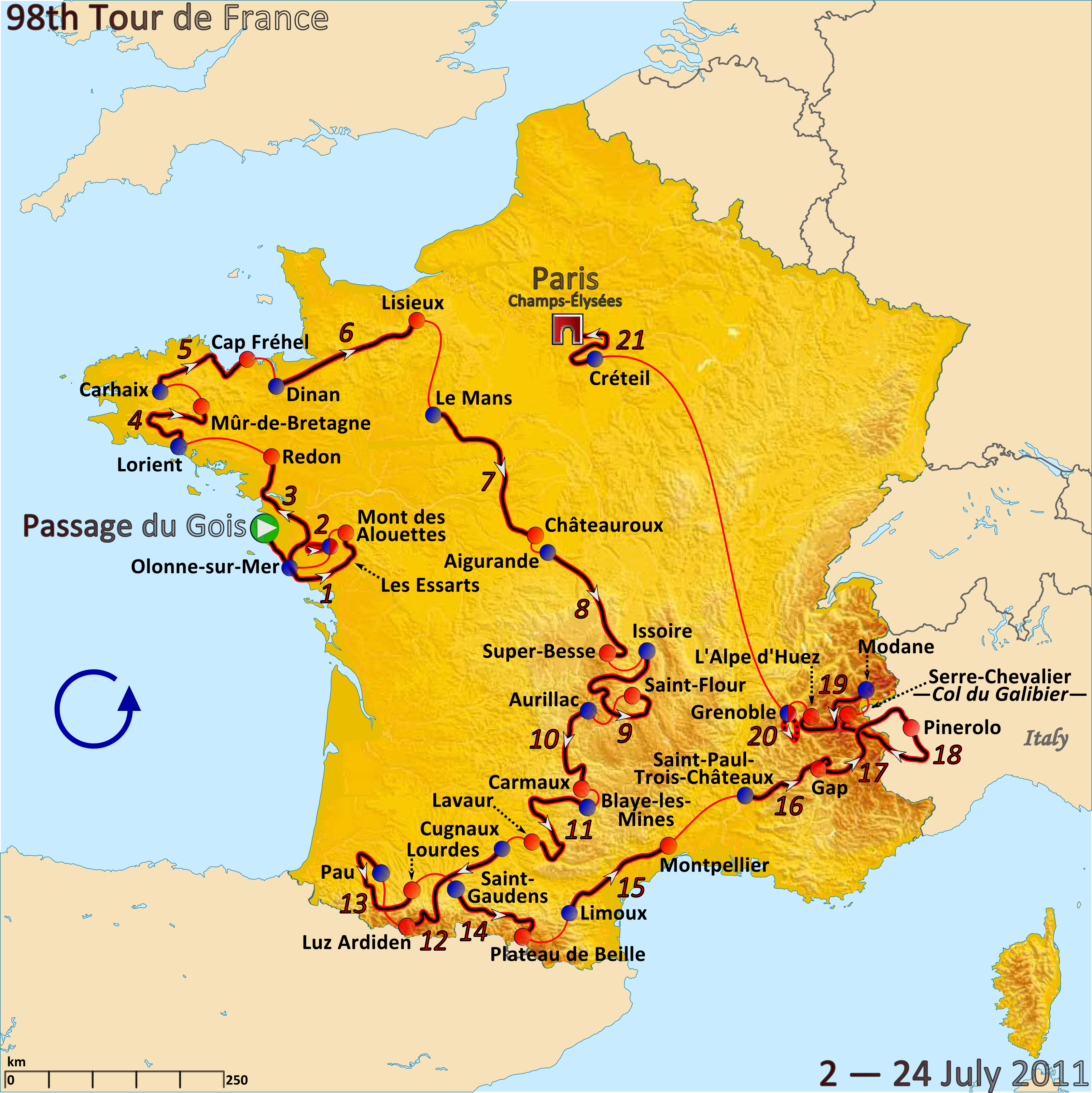 Route of the 2011 Tour de France created by me using Inkscape vectors superimposed on a France model